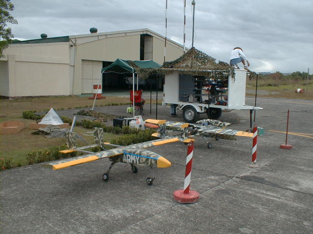 Philippine Army - Tactical Unmanned Aerial Vehicle (TUAV)